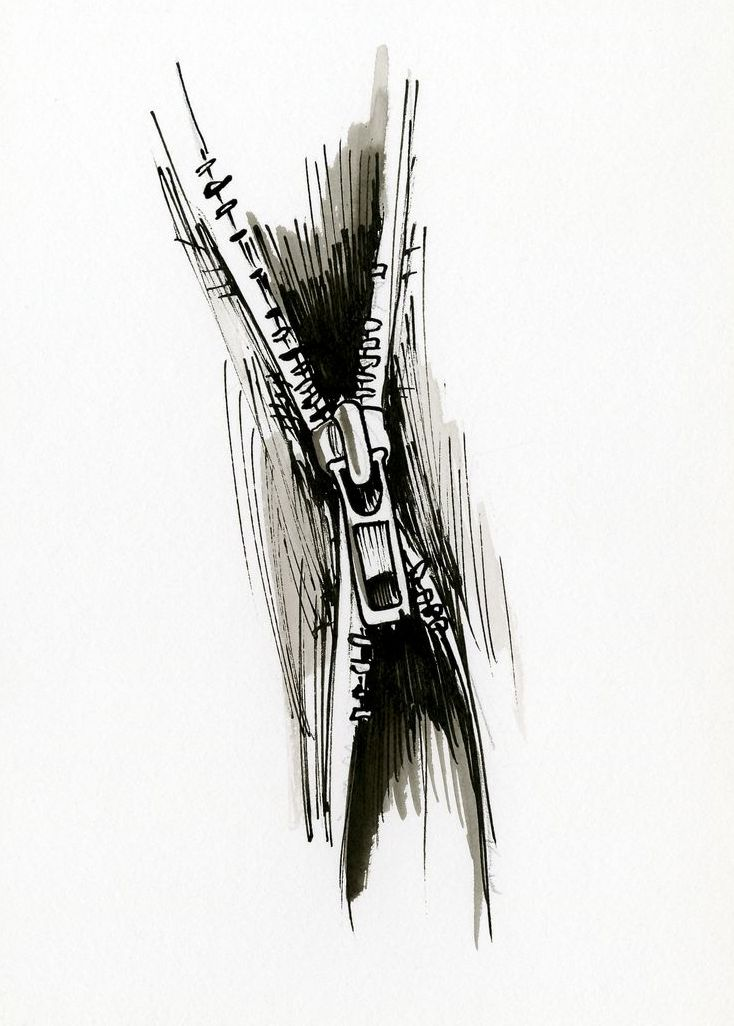 Drawing of the Thesaurus concept : 'zipper'. Fasteners consisting usually of two rows of metal or plastic teeth on strips of tape for binding to the edges of an opening and having a sliding piece that closes the opening by drawing the teeth into interlocking position. (AAT)